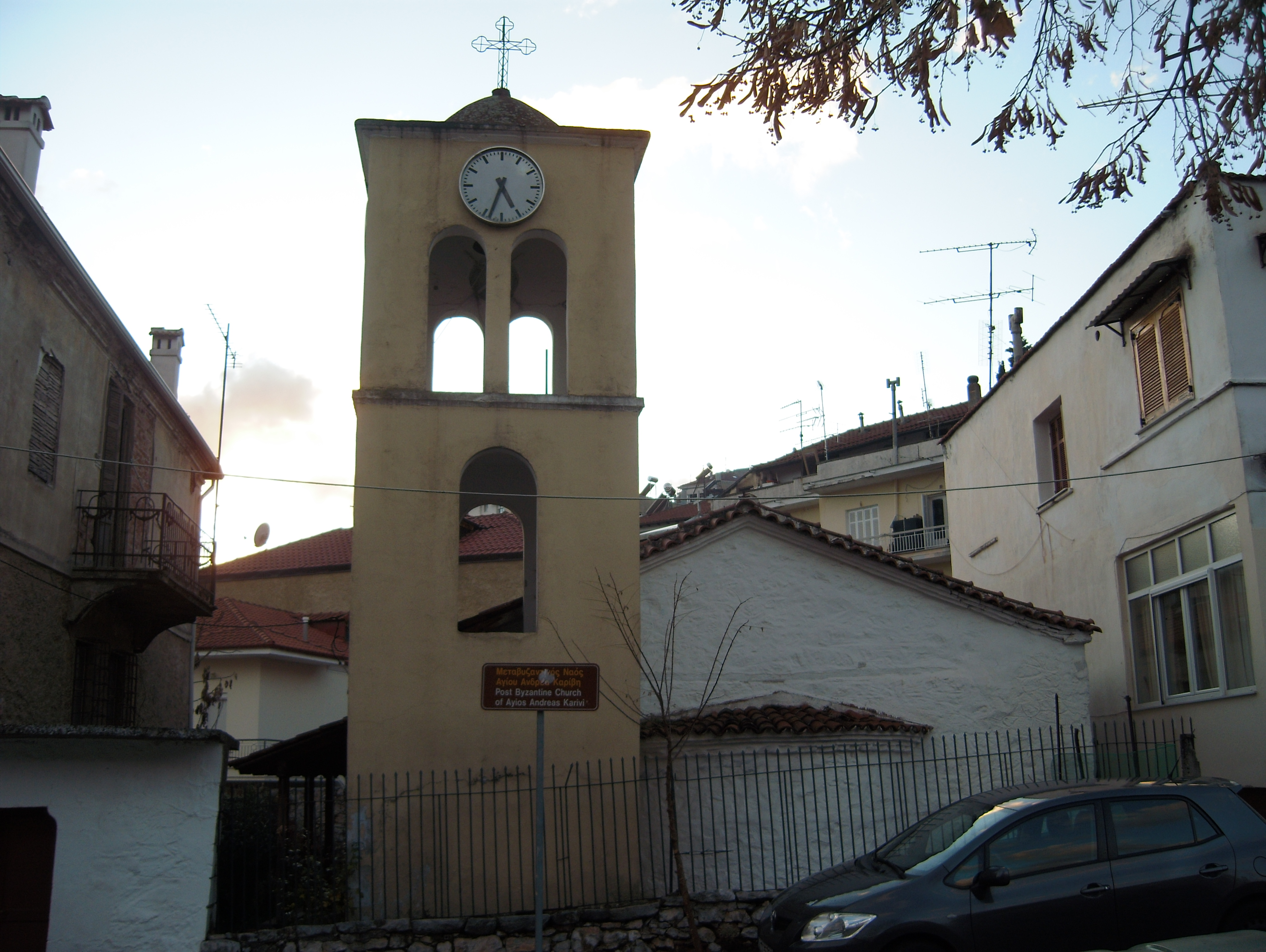 Views of Kostur / Kastoria